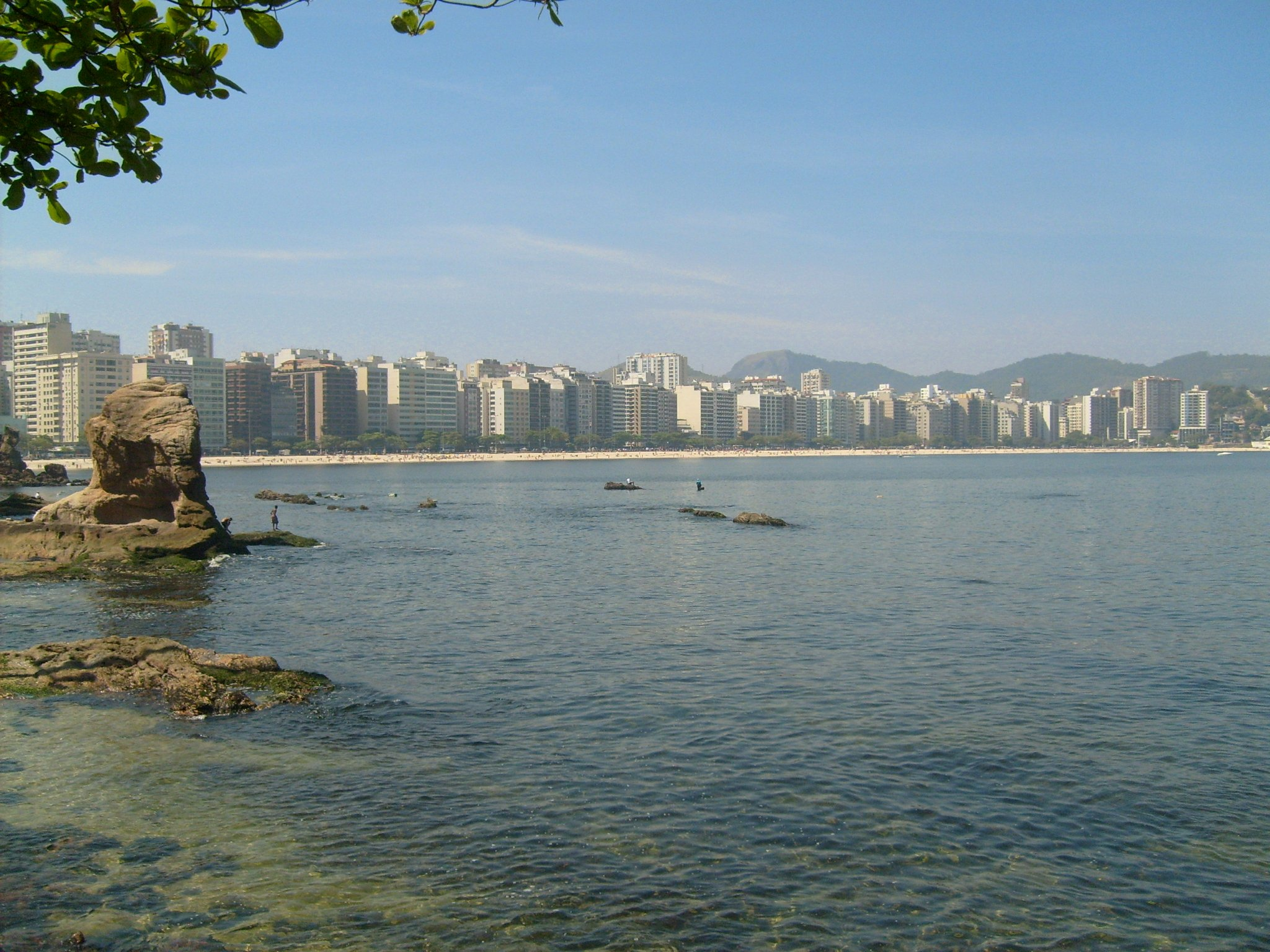 View of Itapuca stone and Icaraí beach, from Niterói, RJ, Brazil.